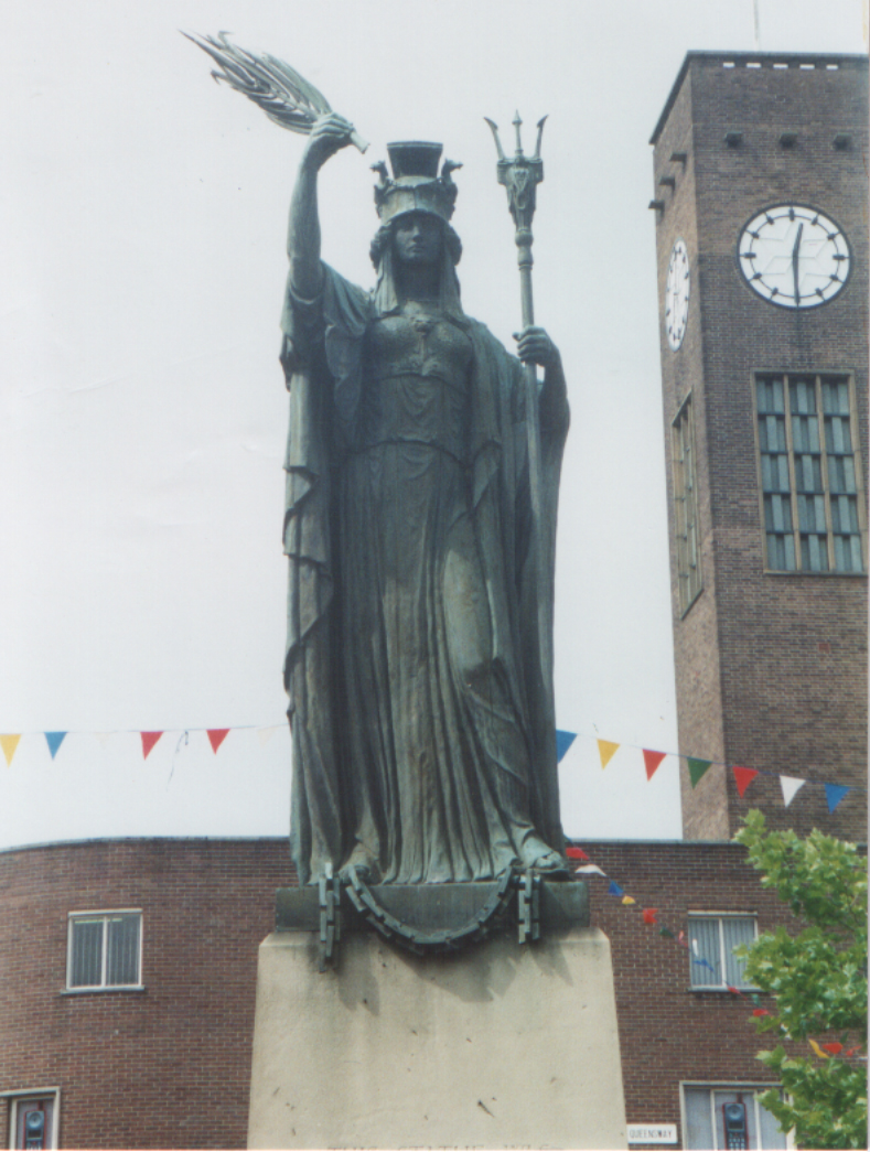 Crewe War Memorial. 20 ft. high. In 1992 when the photo was taken, the memorial was located in the centre of Crewe, facing East. Britannia carries a palm in her right hand and a trident in her left. 10ft high, 26 cwt.It is very similar to the memorials at Troon and Morley. General Sir Ian Hamilton unveiled the Memorial on 14th June 1924. The memorial cost £1,600 which was raised by public subscription and a generous donation form the railway company. Around 15,000 people attended the unveiling ceremony. Cast in about twenty pieces. Restored and re-located 2006. Work arranged by Walter Gilbert in association with Louis Weingartner, Donald Gilbert and H. H. Martyn of Cheltenham. Modelling by Walter and Donald Gilbert with detail by Louis Weingartner. Casting by H. H. Martyn of Cheltenham. Photo by Phillip Medhurst. Metalwork 1923. Photo 1992.